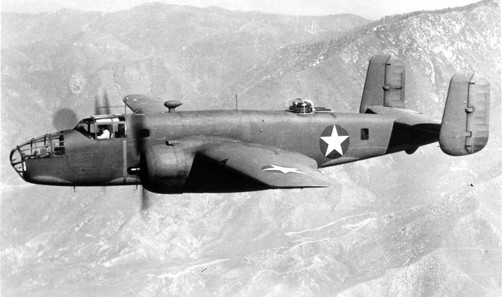 PictionID:40971147 - Title:Mitchell North American B-25C - Catalog:15_002821 - Filename:15_002821.tif - Image from the Charles Daniels Photo Collection album "US Army Aircraft."----PLEASE TAG this image with any information you know about it, so that we can permanently store this data with the original image file in our Digital Asset Management System.----SOURCE INSTITUTION: San Diego Air and Space Museum Archive